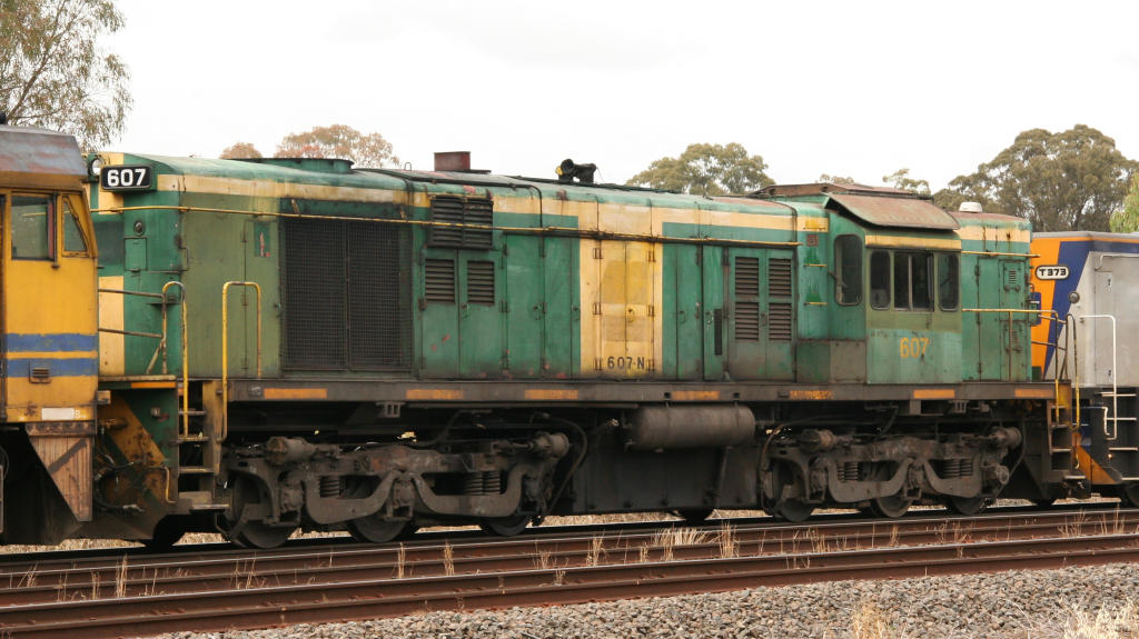 South Spur Rail South Australian Railways 600 class (diesel) 607 in battered Australian National Railways Commission livery on a ballast train at Broadford, Victoria